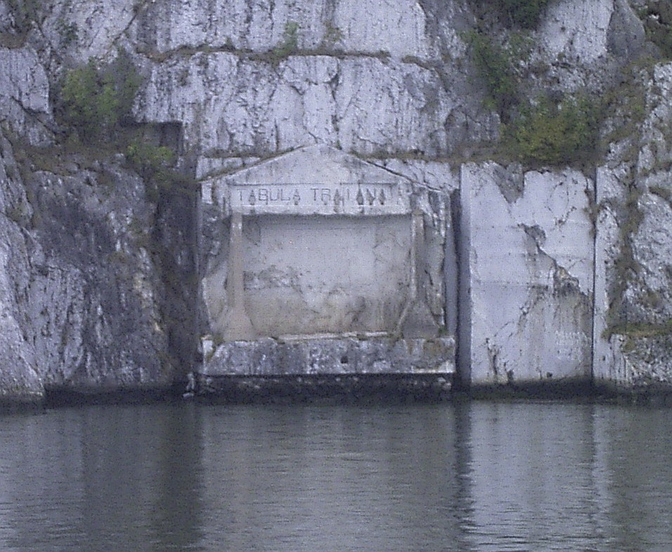 Trajan's tablet (Tabula Traiana), near Danubian Iron Gate; Photo of the Tabula Traiana plaque that is found in the Iron Gate gorge of the Danube on the Serbian coast. Was erected to commemorate the defeat of the Dacian kings by the Romans